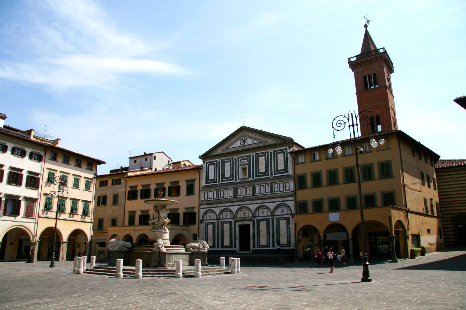 The central square of Empoli